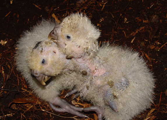 Photo: Mike Bodie, 2005.